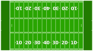 A typical six-man playing field.